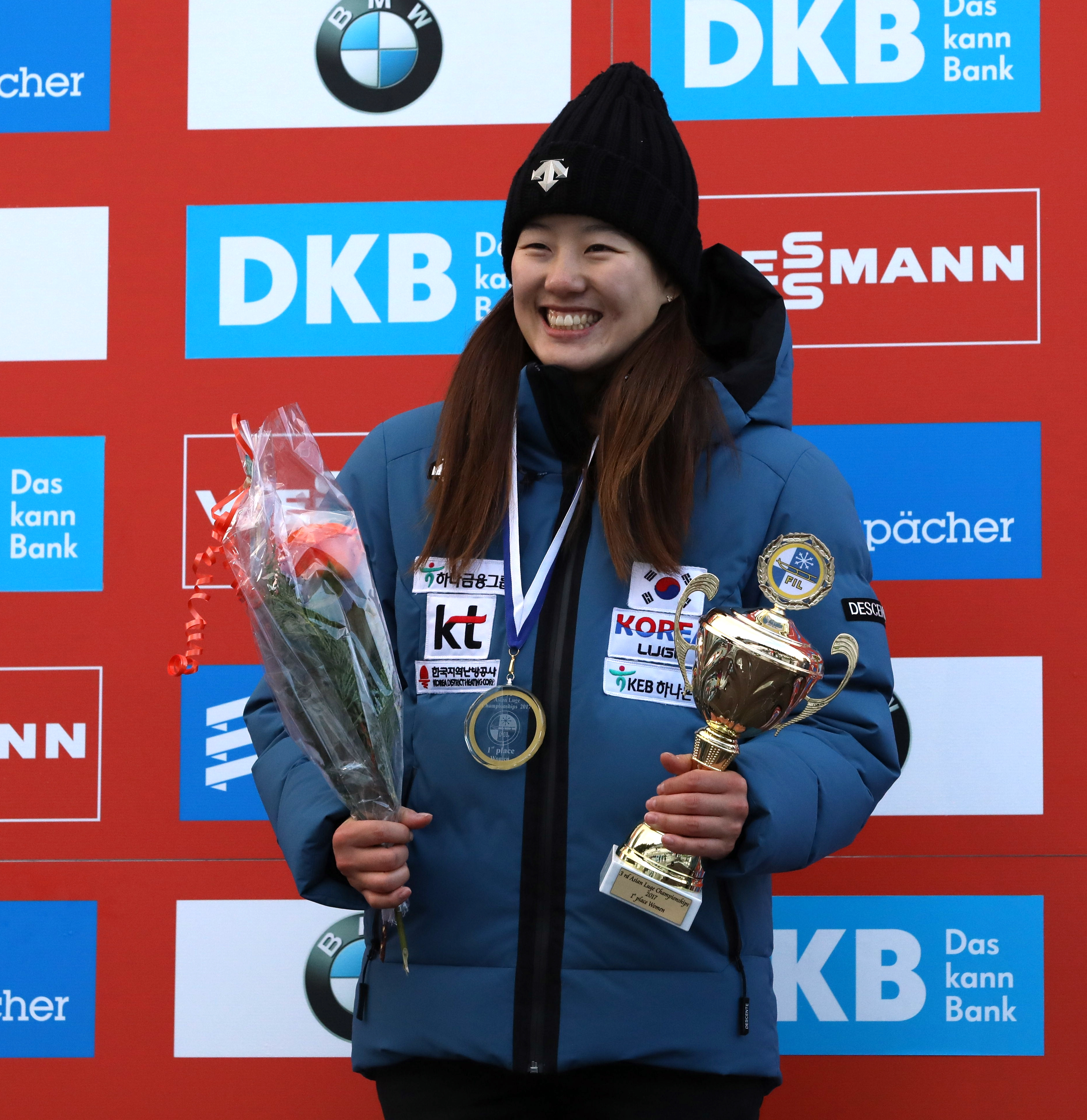 Sung Eun-ryung, 1st place at the Asian championships 2017 in Altenberg